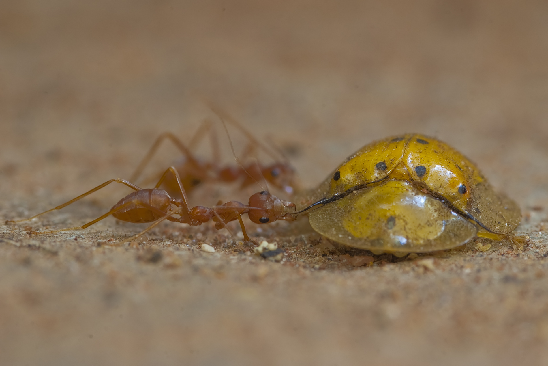 Weaver ants attacking/hunting tortoise beetle